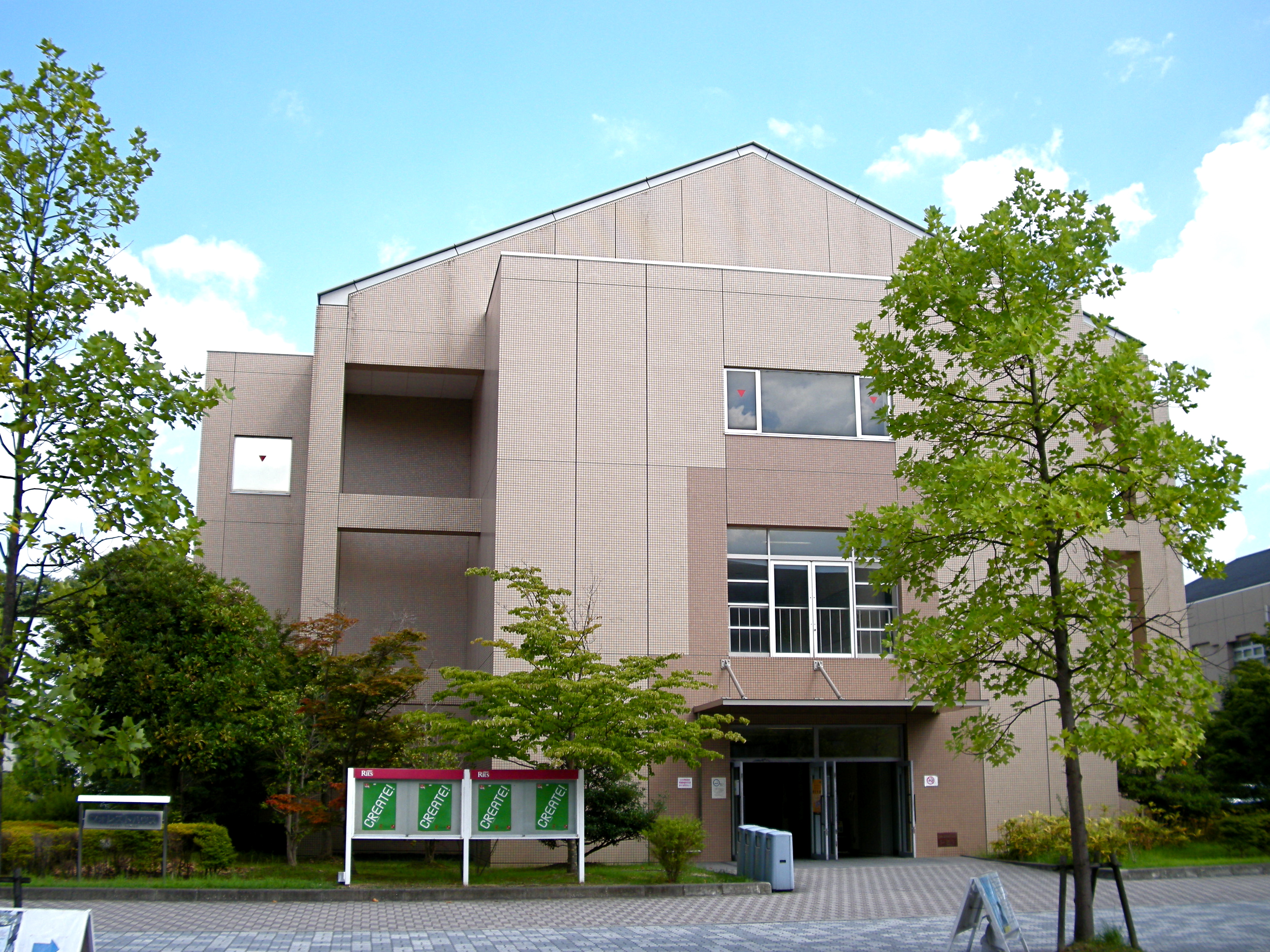 Forest House (Biwako Kusatsu Campus, Ritsumeikan University, Shiga, Japan)